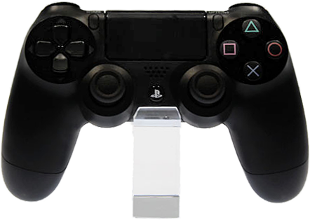 The DualShock 4 controller for the PlayStation 4 shown at E3 2013